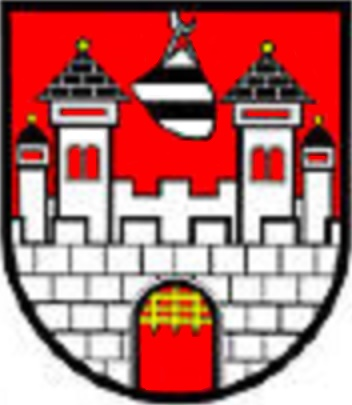 Coat of arms of Murau, Styria: Gules, a city wall […], an inescutcheon bendy of 4 argent and sable pending […]